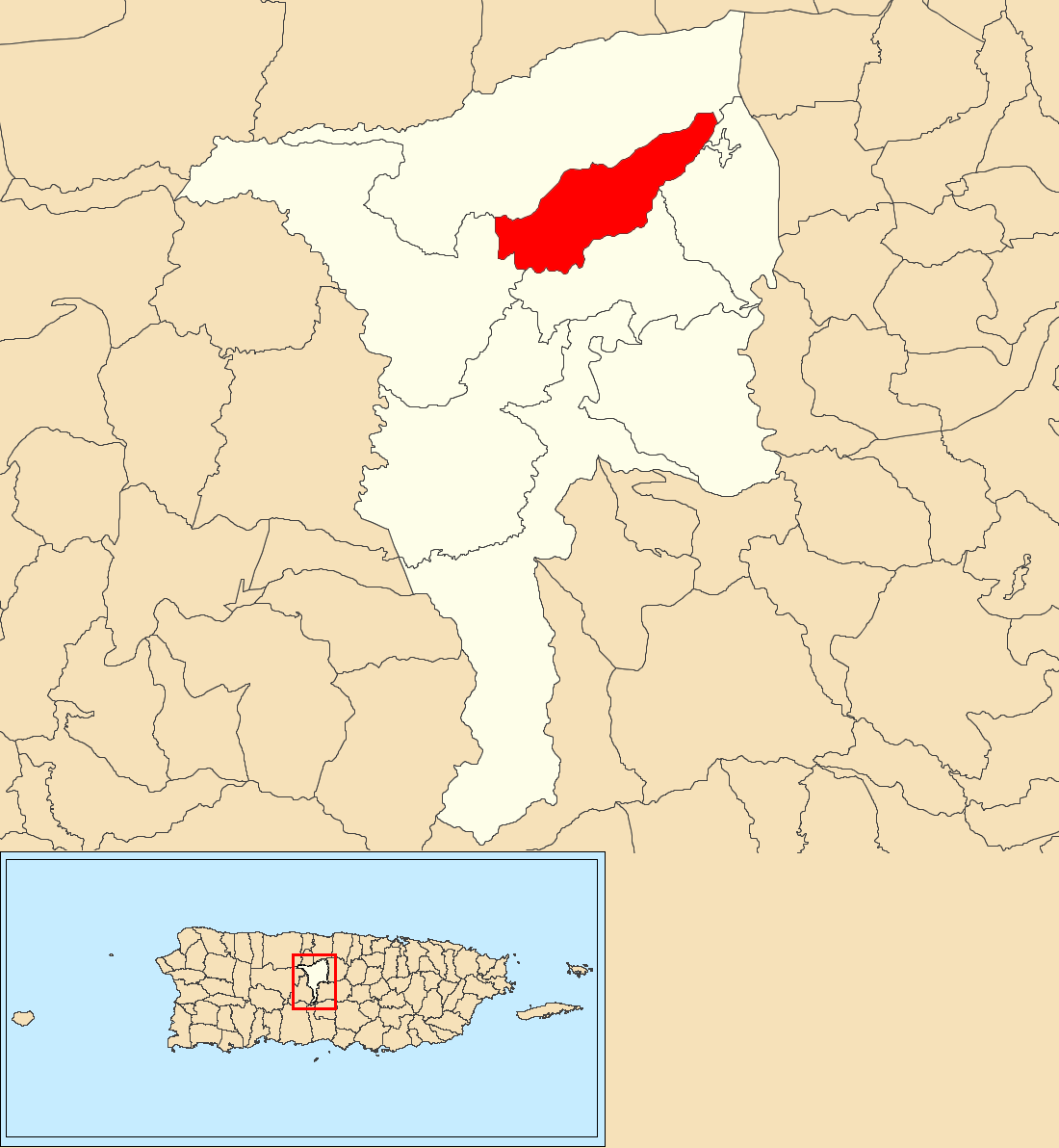 Cordillera, Ciales, Puerto Rico locator map